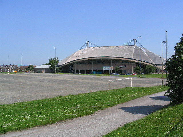 Richard Dunn’s sports centre. The centre is situated at Odsal Top and is named after Bradford’s Heavyweight Boxing champion who went 5 rounds with Muhammad Ali in 1976; Ali won the fight on a technical knockout.